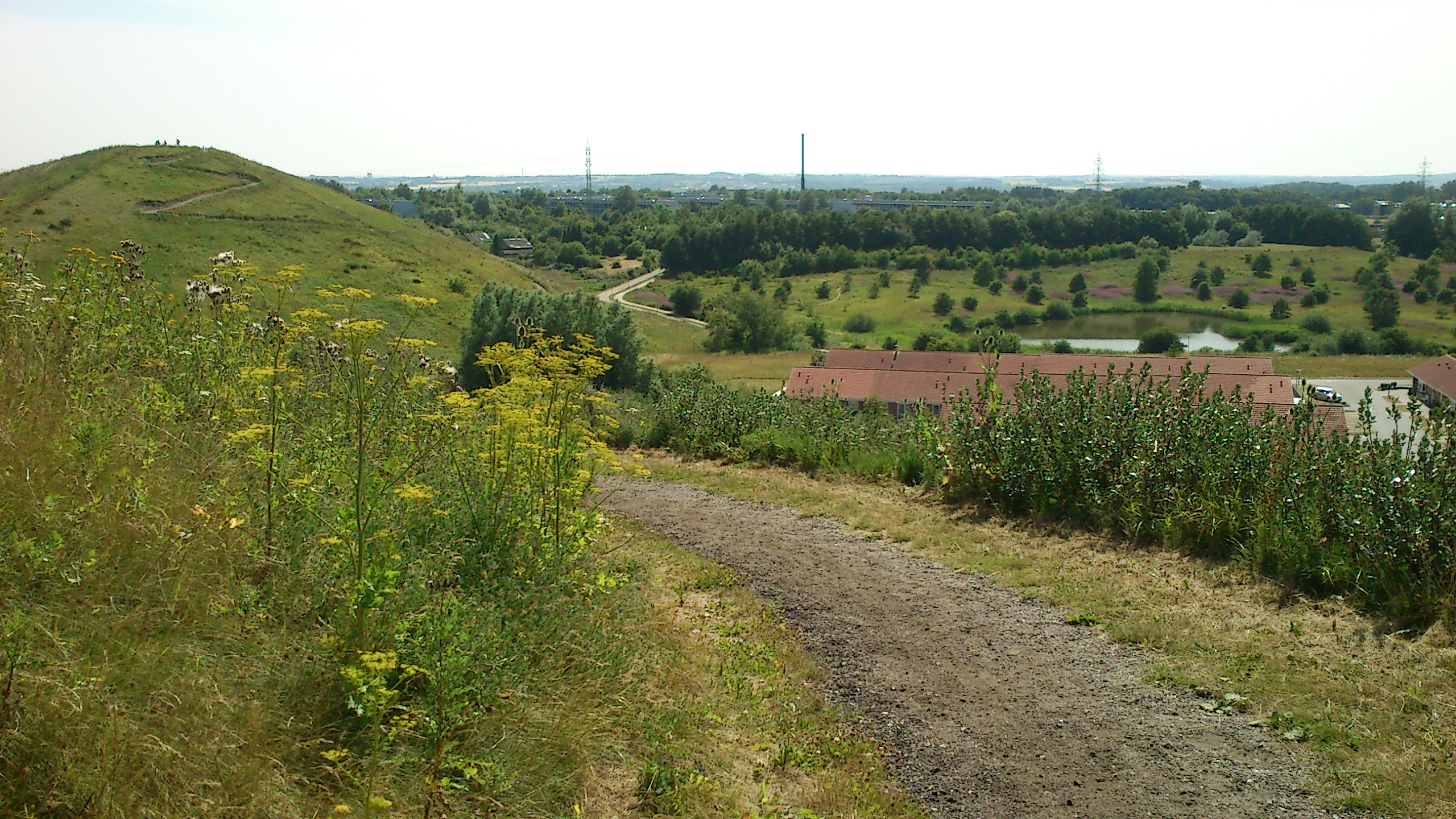 Vista from The Spiral. Mountainbikers spotted in the distance...